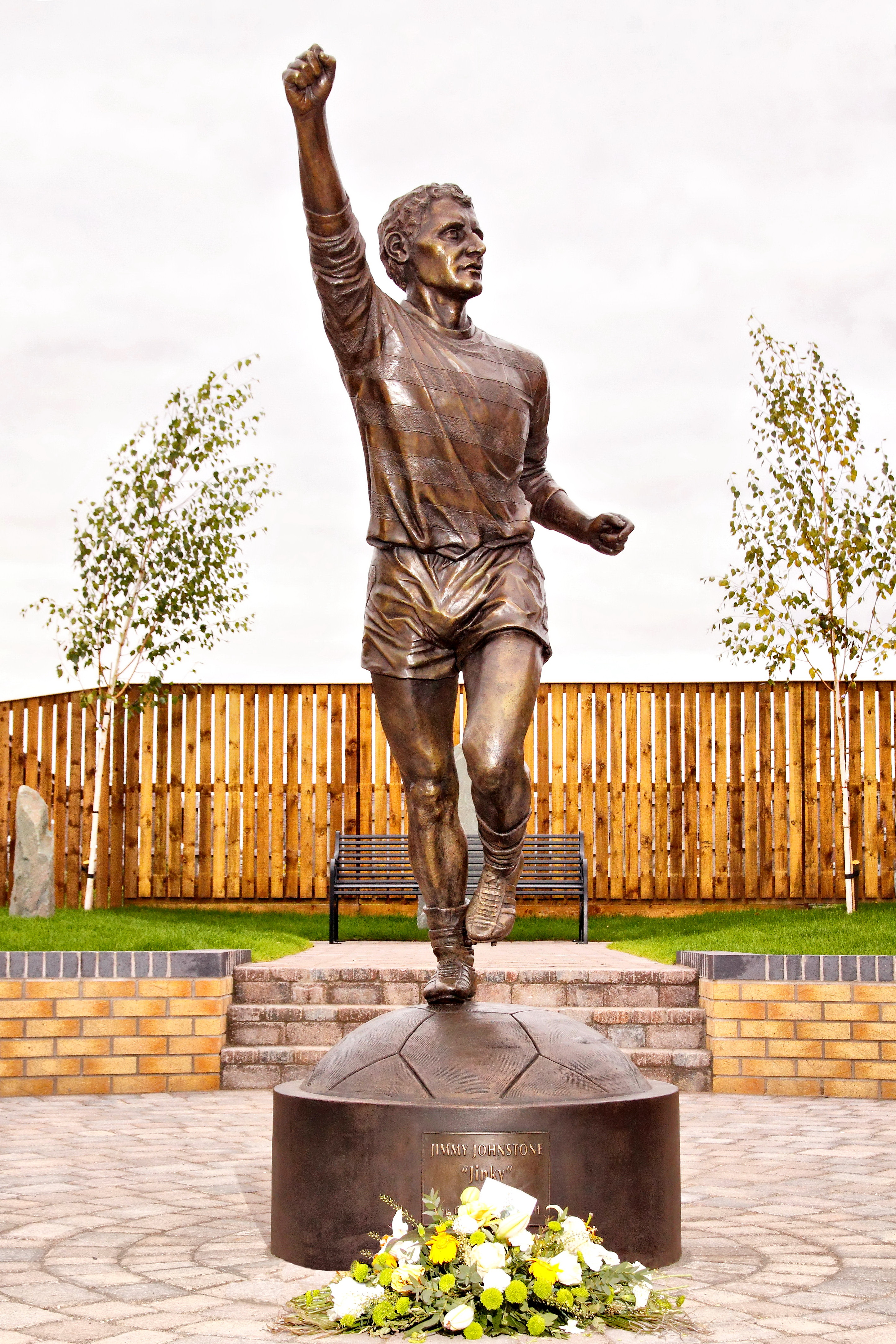 The legendary Celtic football player Jimmy 'Jinky' Johnstone bronze statue by John McKenna sculptor. Created by McKenna in his Ayrshire studio bronze foundry for the memorial garden of Jimmy Johnstone in Viewpark, Glasgow. Life-size bronze.